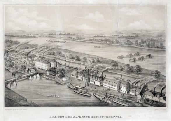 The Óbuda Shipyard, Óbuda, Hungary, 1850